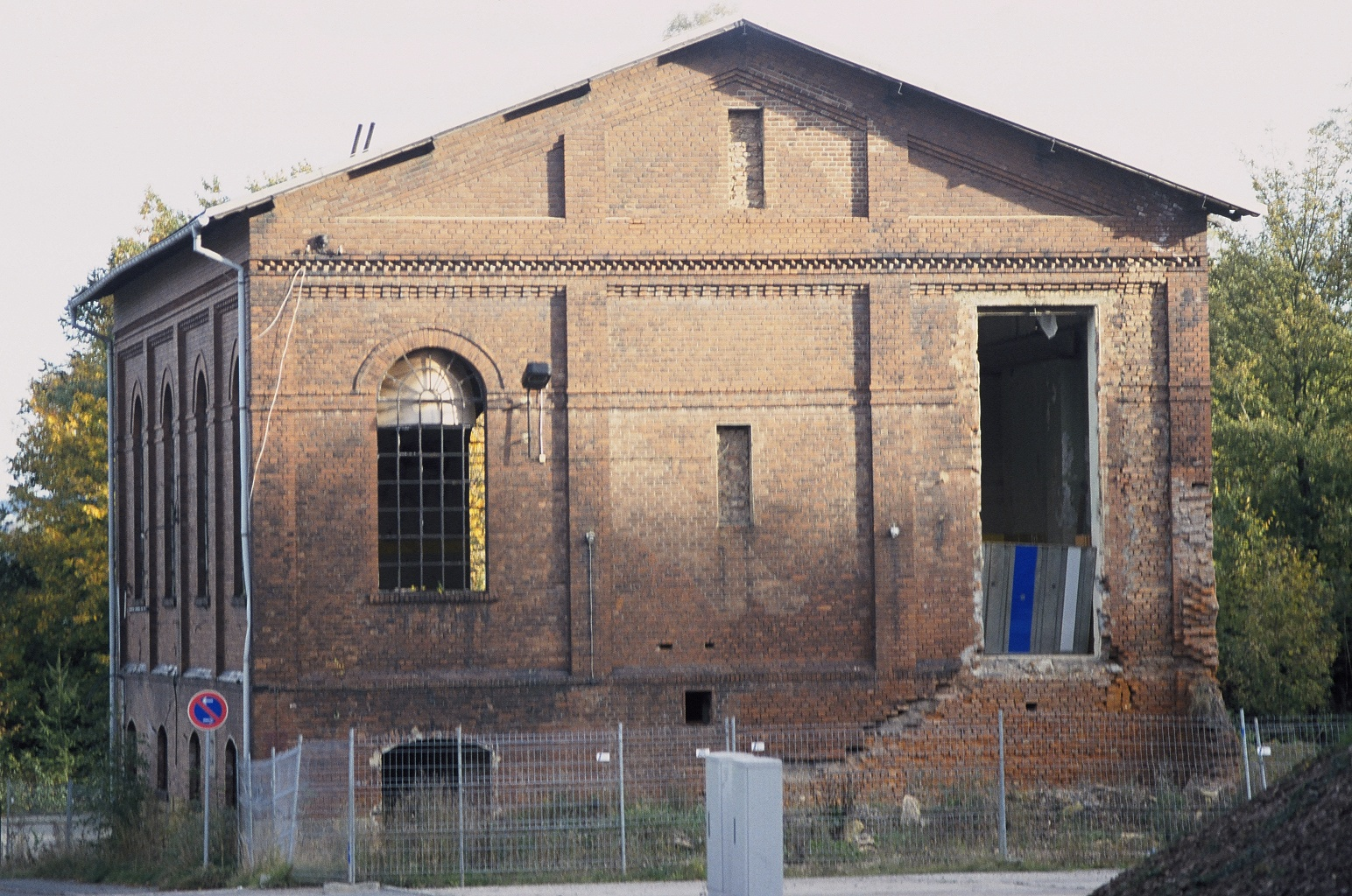 Former winding machine house of shaft 1 of the hard coal mine Deutschland in Oelsnitz/Erzgebirge, Germany